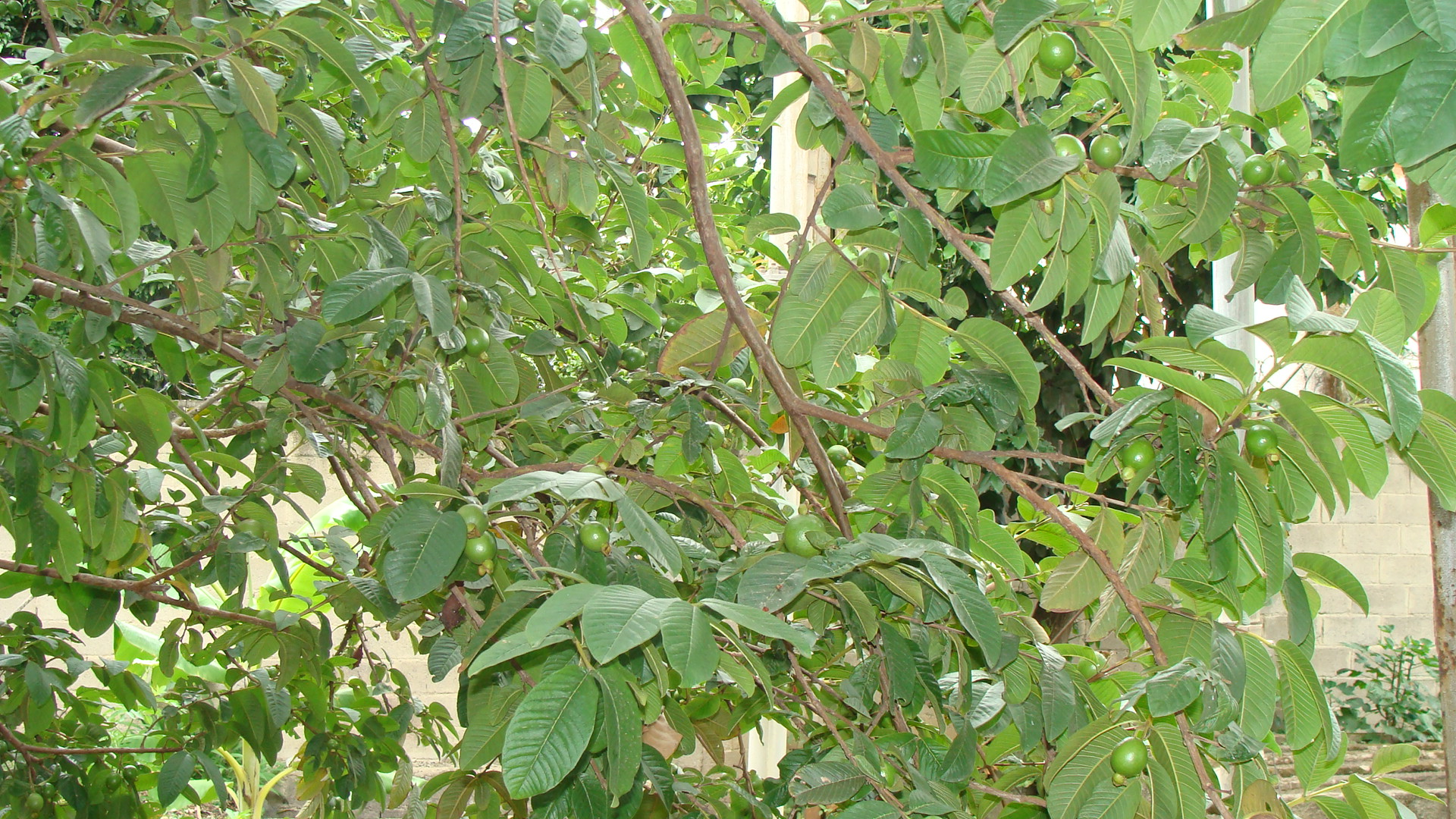 Psidium guajaba